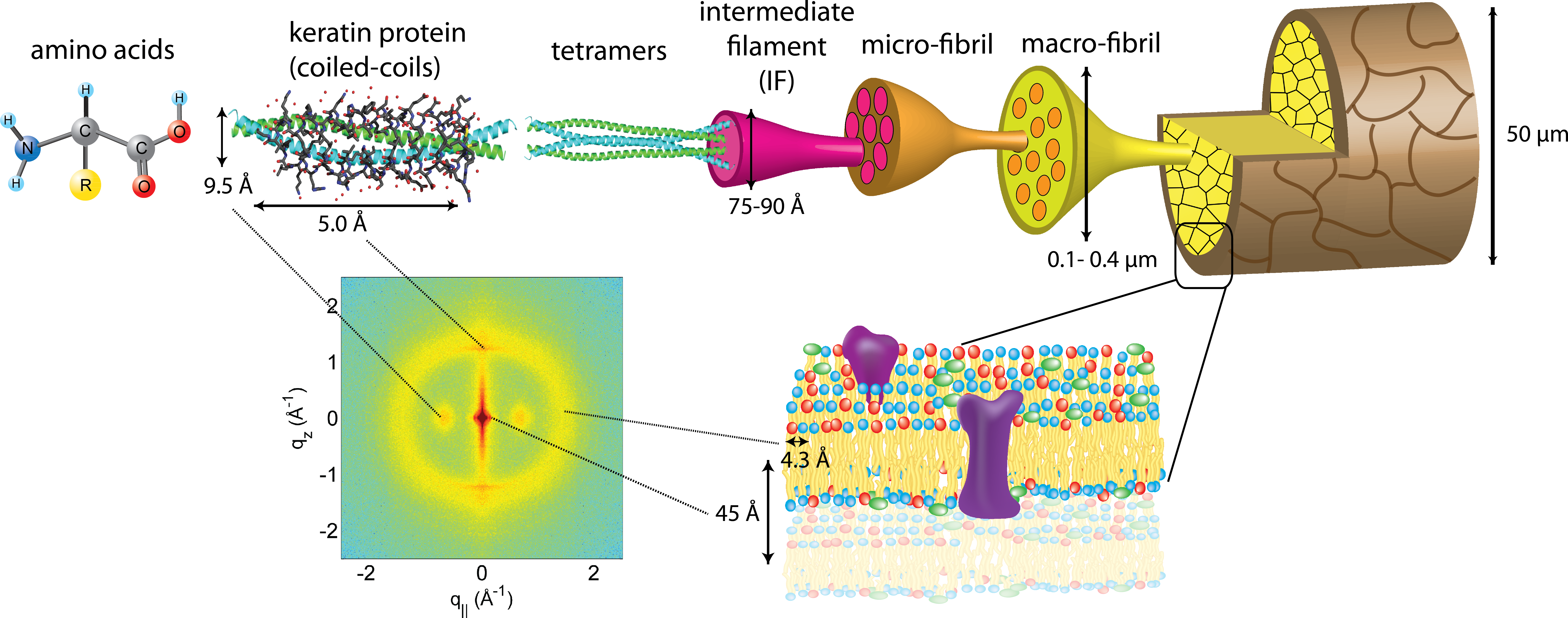 The hierarchical structure of hair in the cortex and cuticle. The main component of the cortex is a keratin coiled-coil protein phase. The proteins form intermediate filaments, which then organize into larger and larger fibres. The hair is surrounded by the cuticle, a dead cell layer. The common features observed in the X-ray data of all specimens are signals related to the coiled-coil keratin phase and the formation of intermediate filaments in the cortex, and the cell membrane complex. Signal assignment and corresponding length scales are shown in the figure.